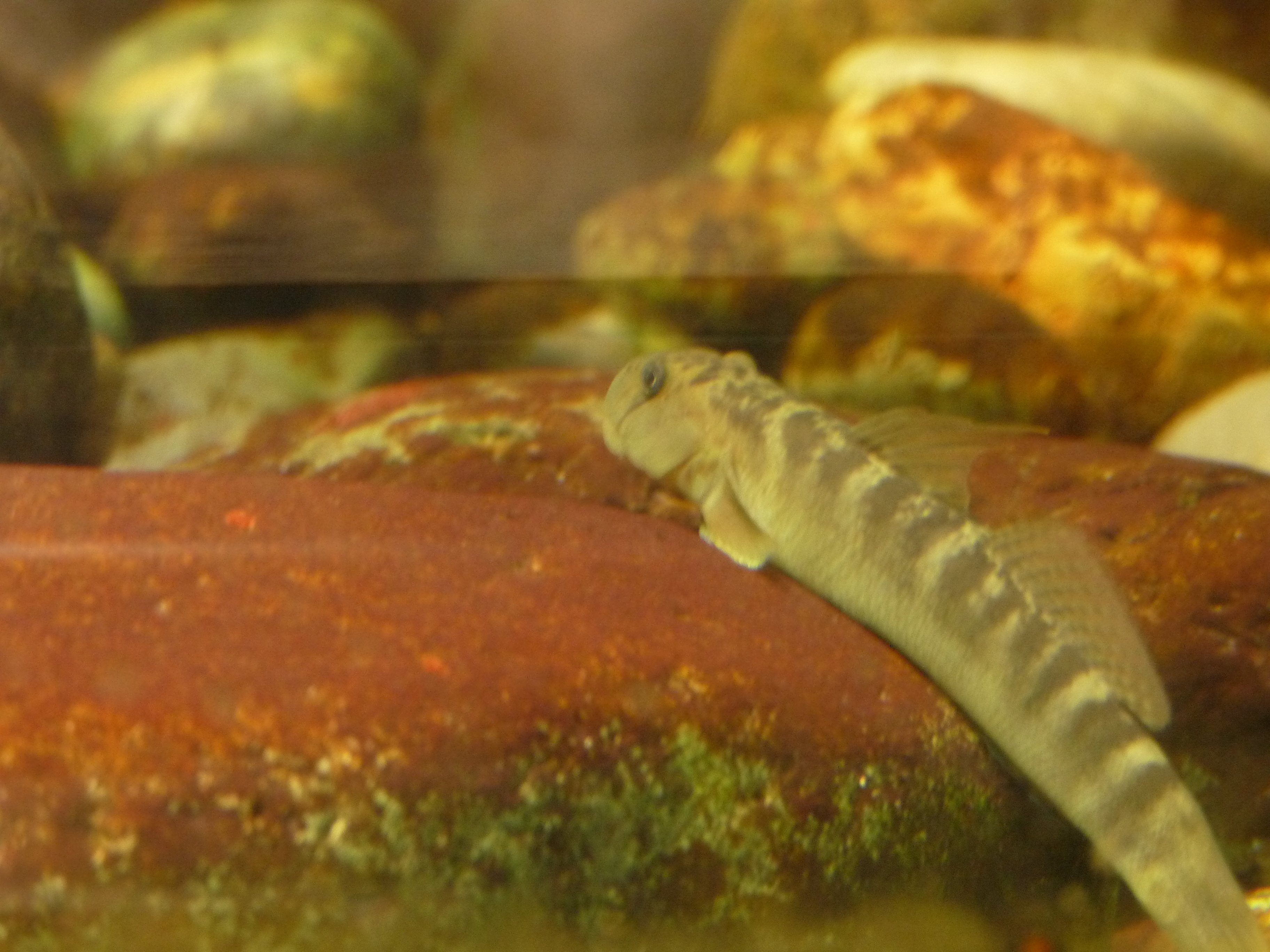 Sicyopterus japonicus